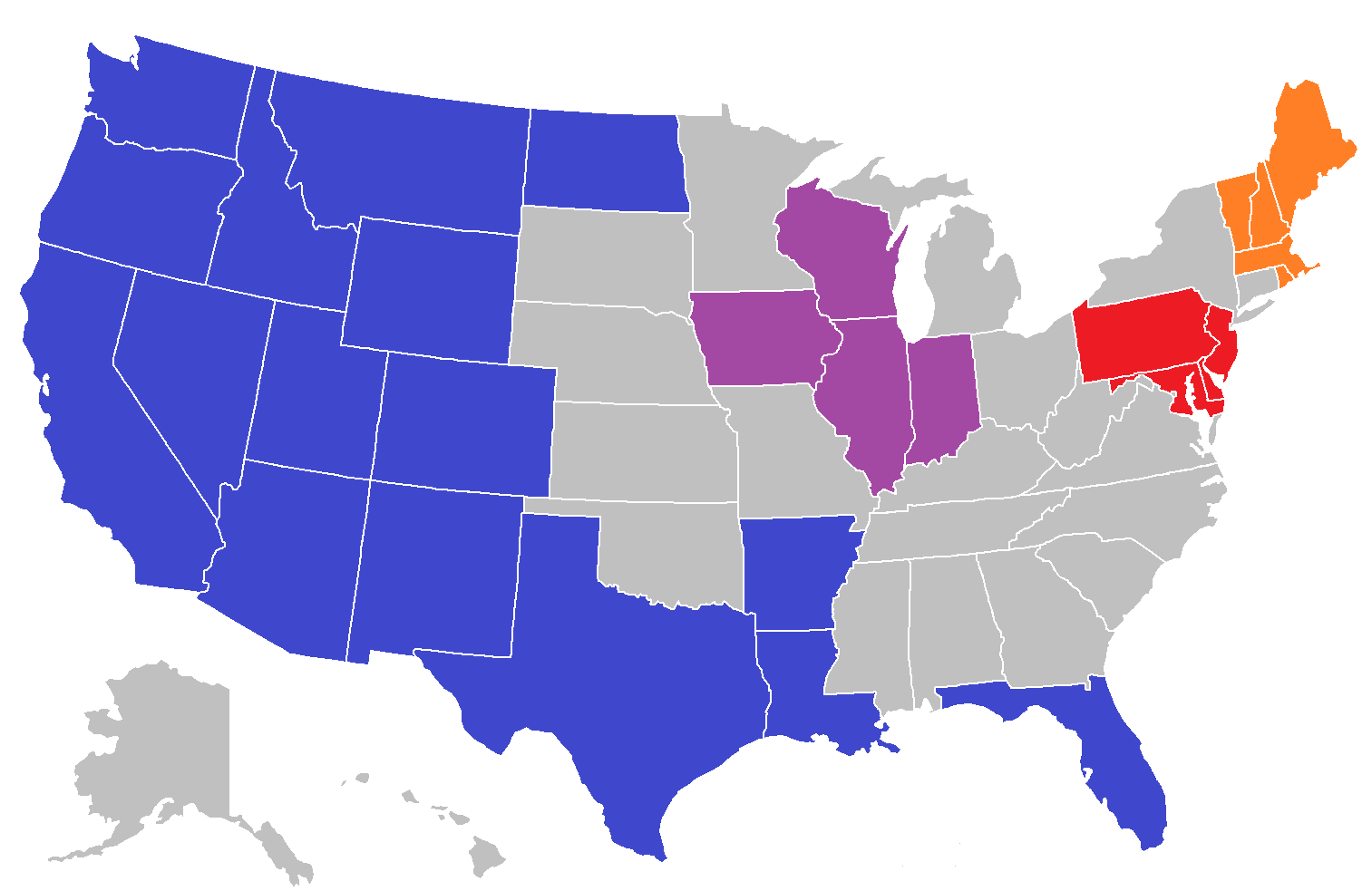 Map of states with Albertsons-owned stores: Albertsons ACME Jewel-Osco Shaw's and Star Market